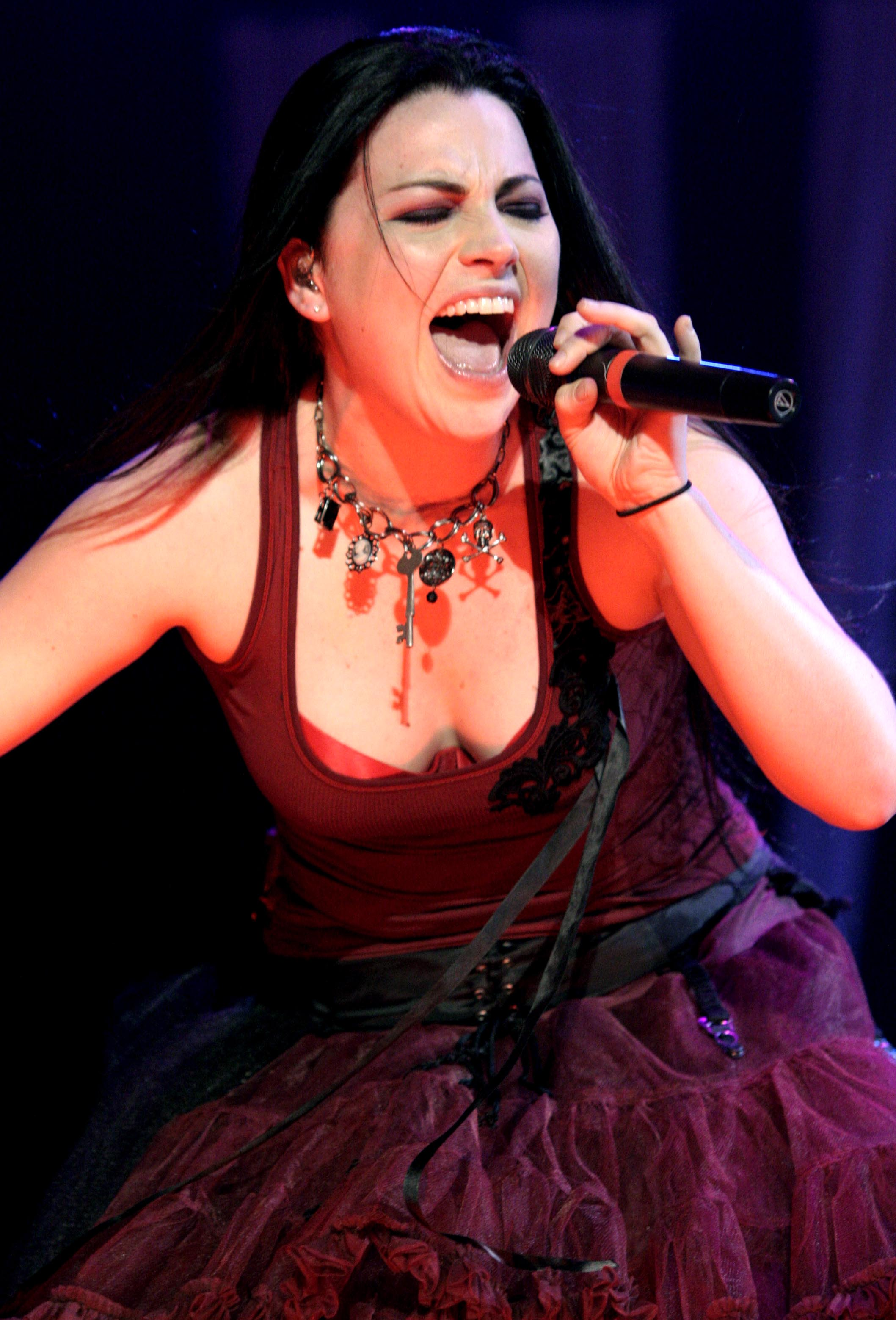 Evanescence at a concert. Showing Amy Lee.